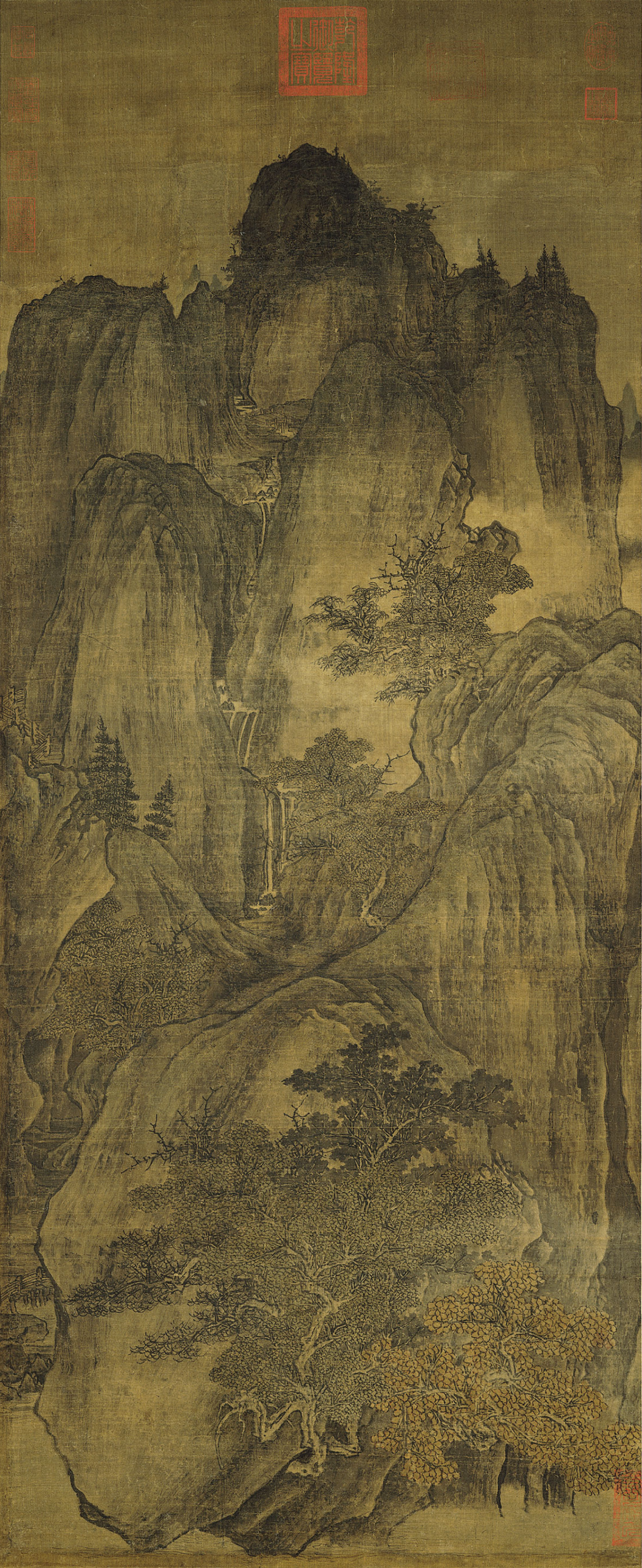 Late Greenery of Autumn Mountains Kuan T'ung, Five Dynasties (Liang, 907-923) Hanging scroll, ink and color on silk, 140.5x57.3cm Conserved in the National Palace Museum